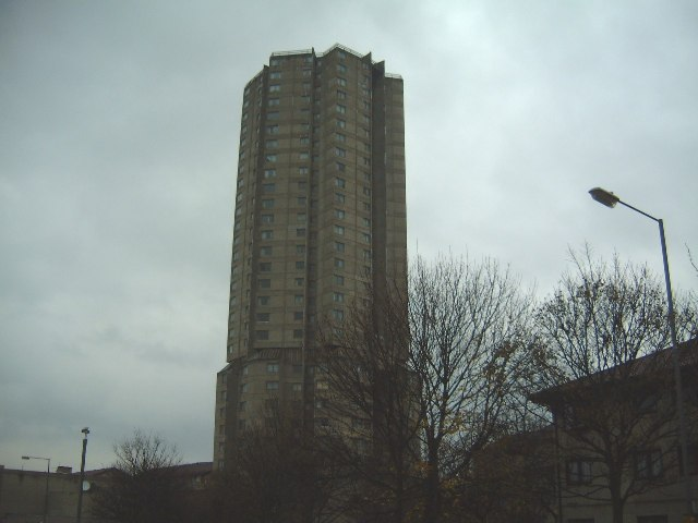 Derwent Tower, Ravensworth Road, Gateshead, Tyne and Wear. The tower is nicknamed the "Dunston Rocket".